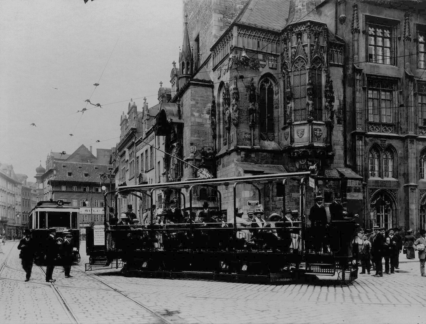 Tram on the Old Town Square in Prague, note Prague Astronomical Clock in background